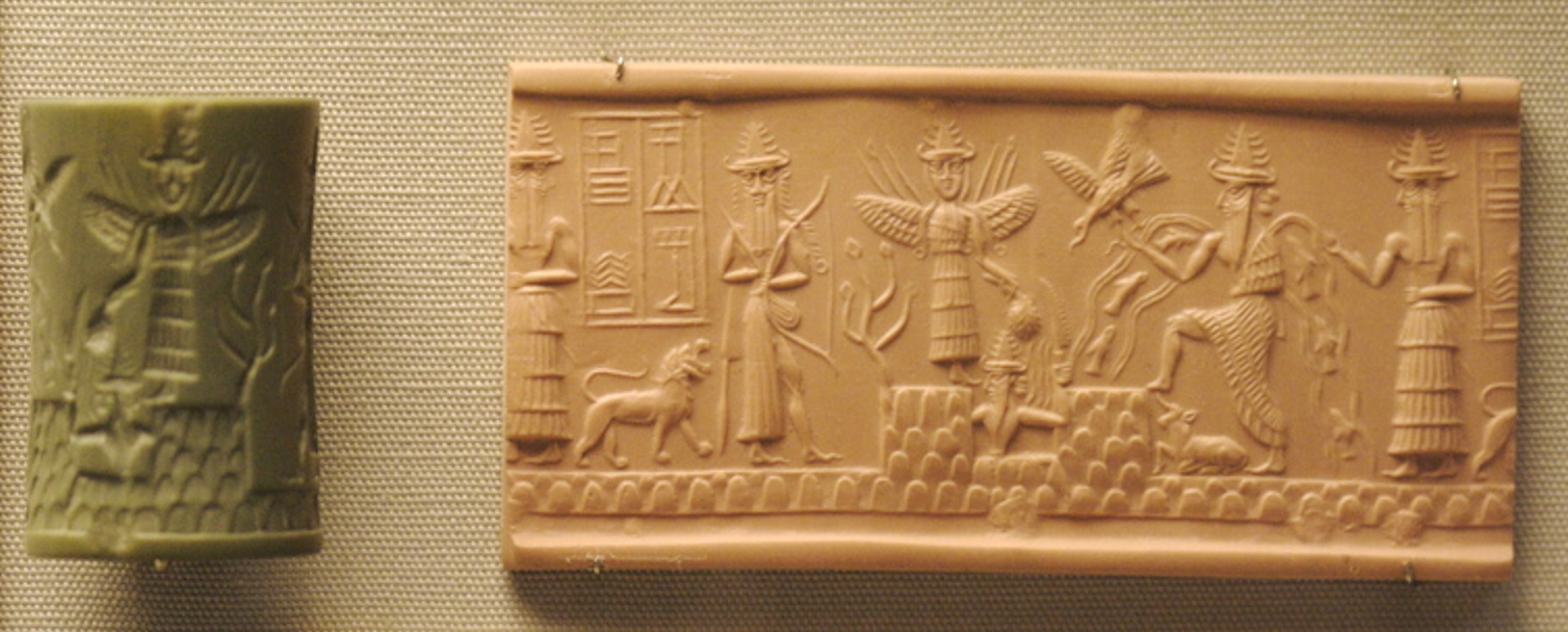 Adda Seal Akkadian Empire 2300 BC